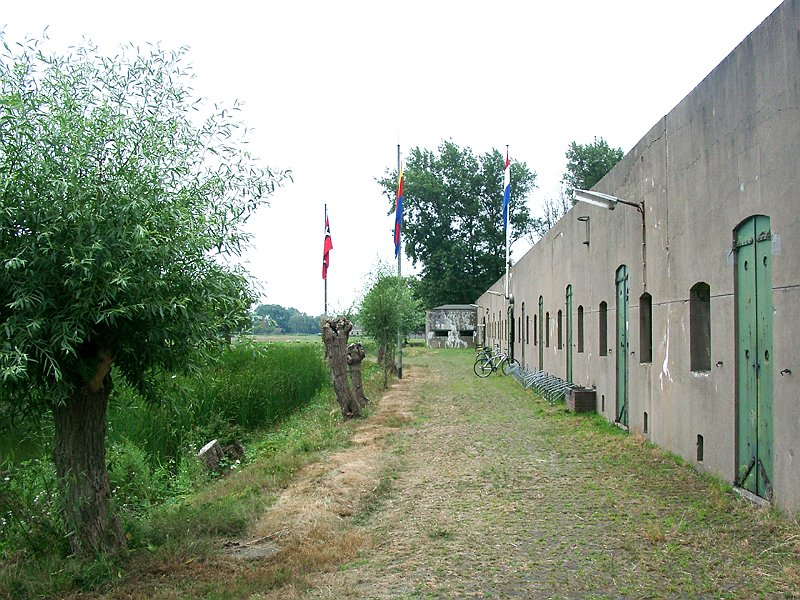 Fort aan Den Ham, part of the Defence Line of Amsterdam (Stelling van Amsterdam).